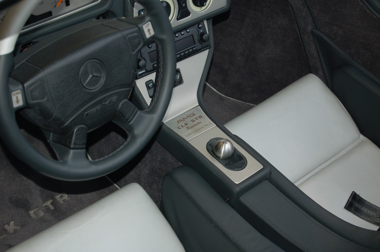 Mercedes Benz CLK-GTR Interior at Auto Salon Singen, Germany.